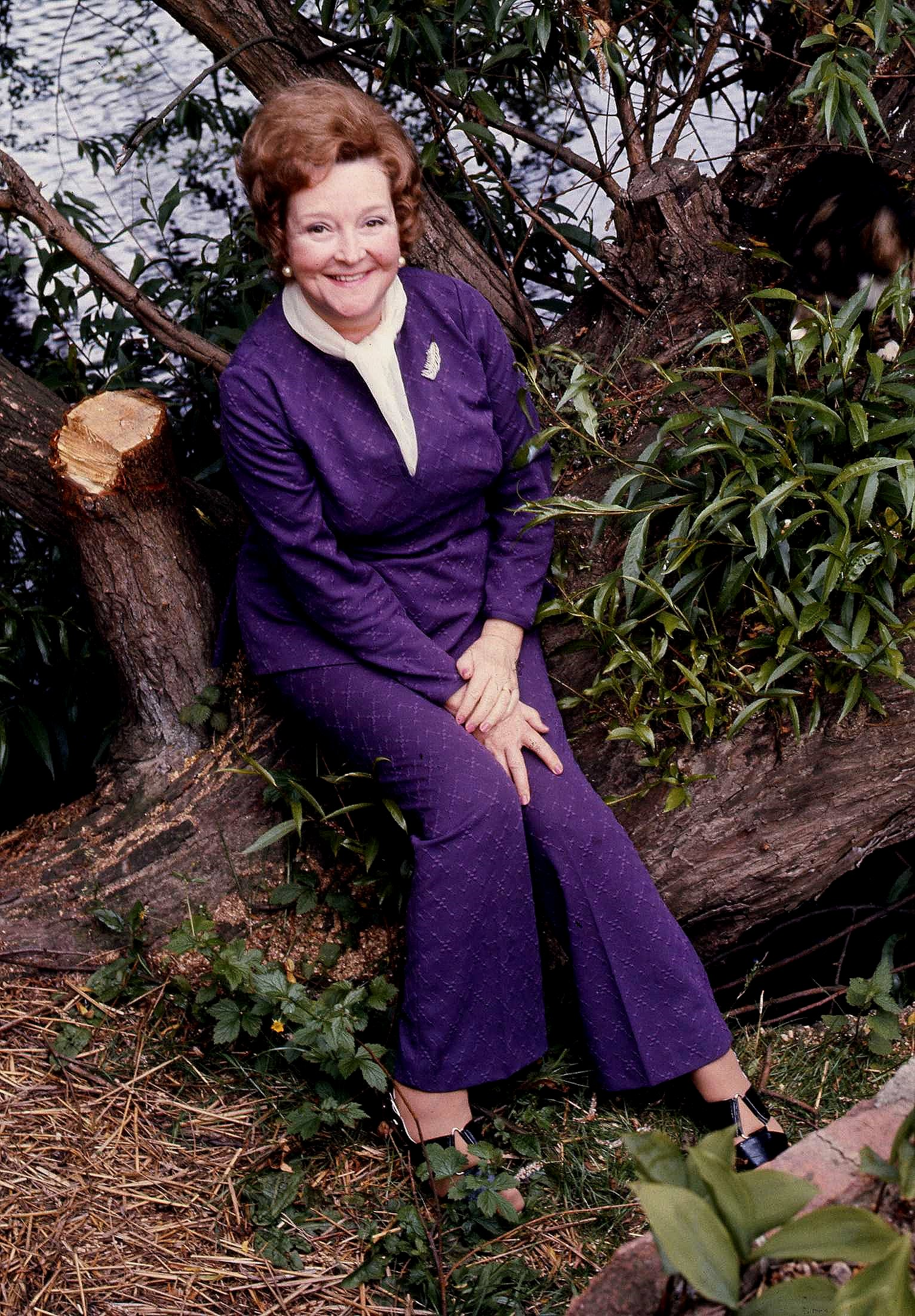 portrait of Bery Reid